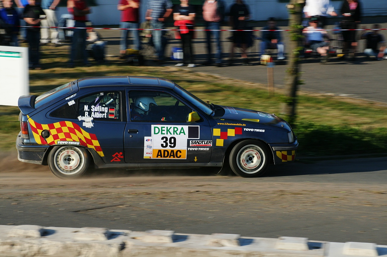 20. ADAC Mobil Pegasus Rallye Sulinger Land • 04./05.05.2007 WP 13